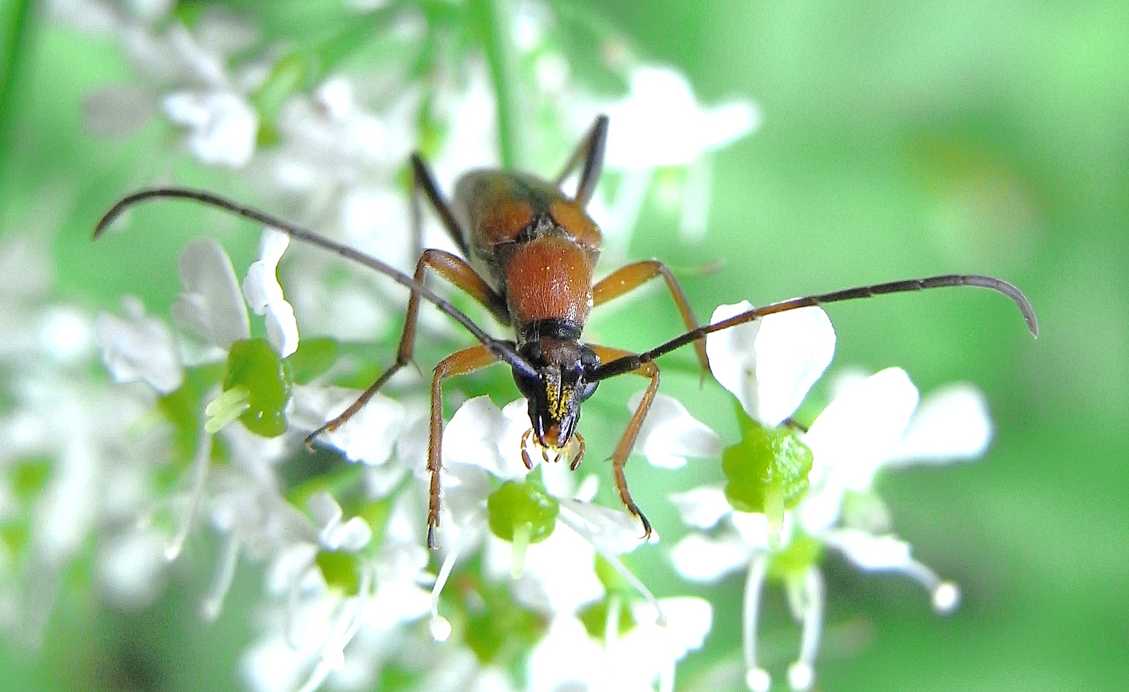 Stenurella septempunctata from Hungary Ricoh R8